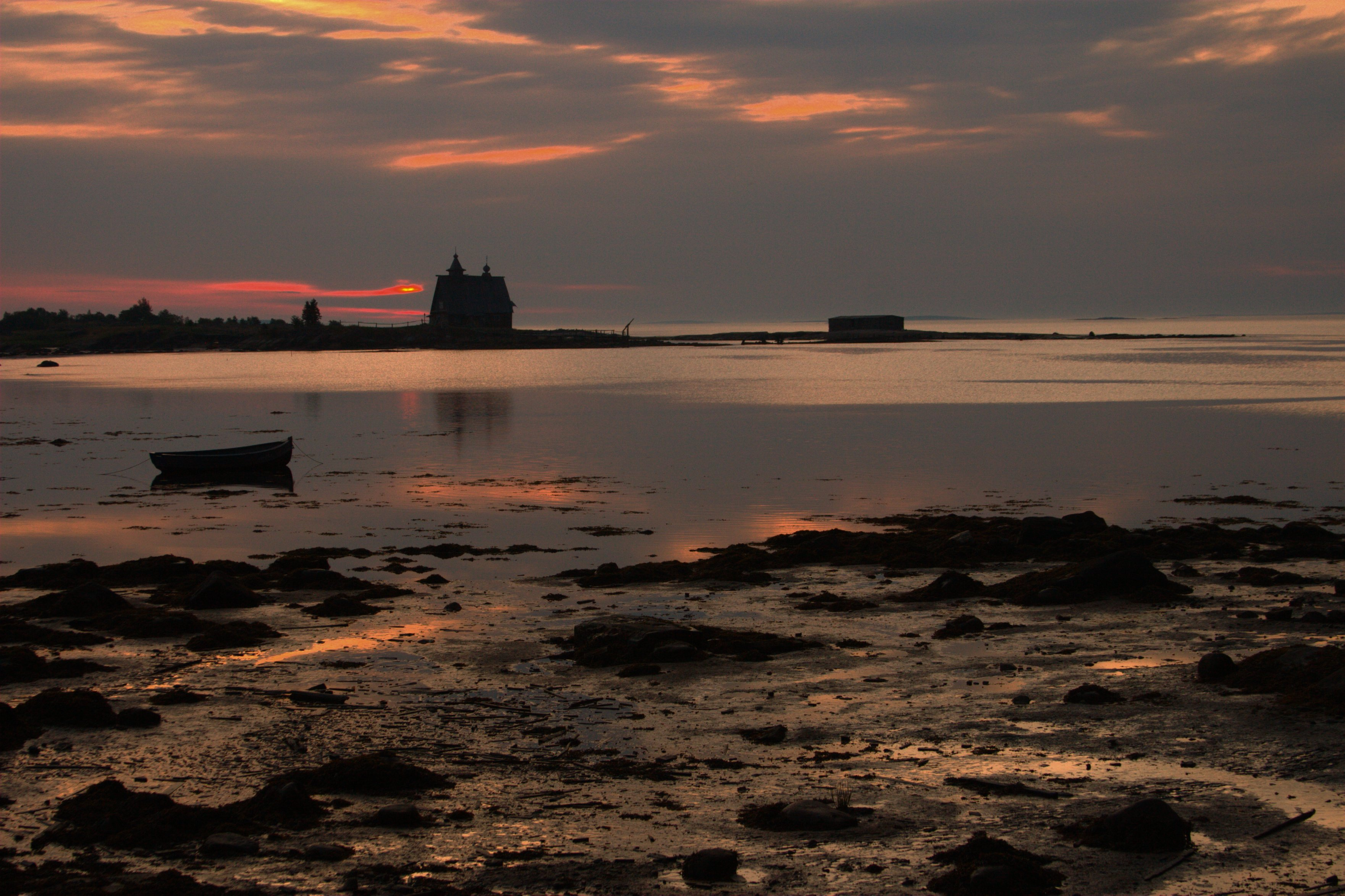 Kem is a historic town in the Republic of Karelia, Russia, located on the shores of the White Sea where the Kem River enters it. Kem was first mentioned as a demesne of the Novgorod posadnik Marfa Boretskaya in 1450, when she donated it to the Solovetsky Monastery. Kem was used as departure place for boats headed to Solovki carrying political prisoners from 1926 to 1939. In this shot you can see some decors from "The Island", biographical film about a fictional 20th century Eastern Orthodox monk.